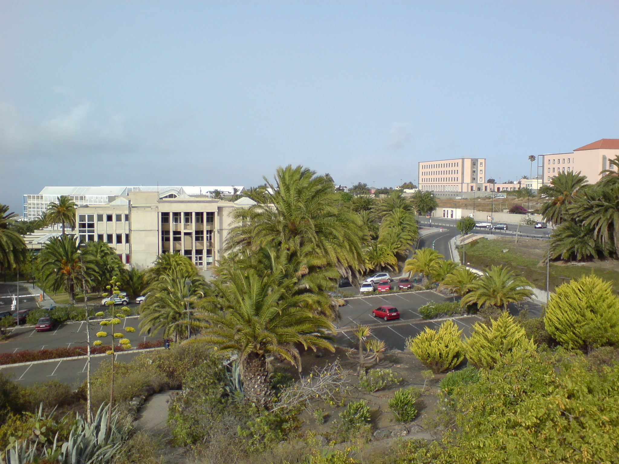 Superior Technical School of Architecture of Las Palmas de Gran Canaria, general view of the surroundings. Campus of Tafira. University of Las Palmas de Gran Canaria ULPGC (Canary Islands, Spain)